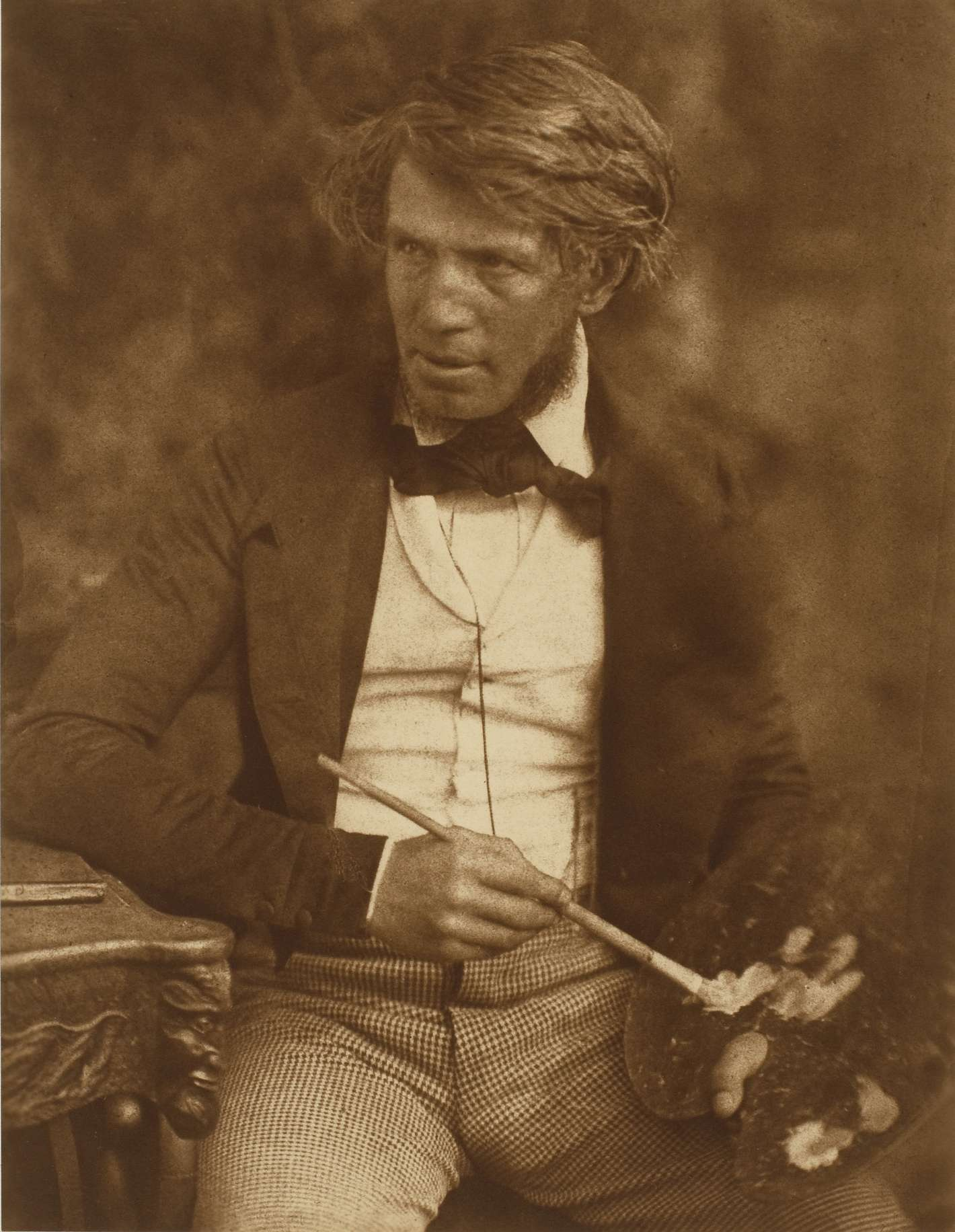 Carbon print of Horatio McCulloch